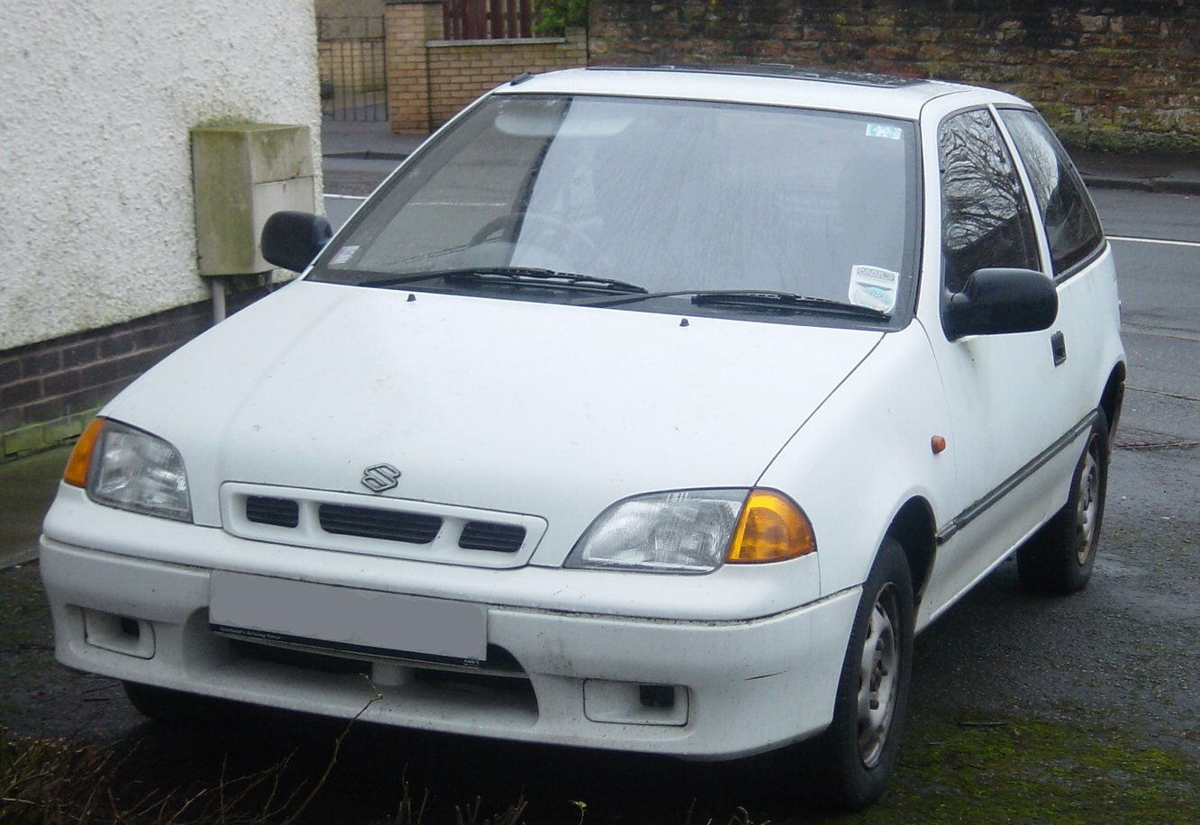 Created by Mazurka